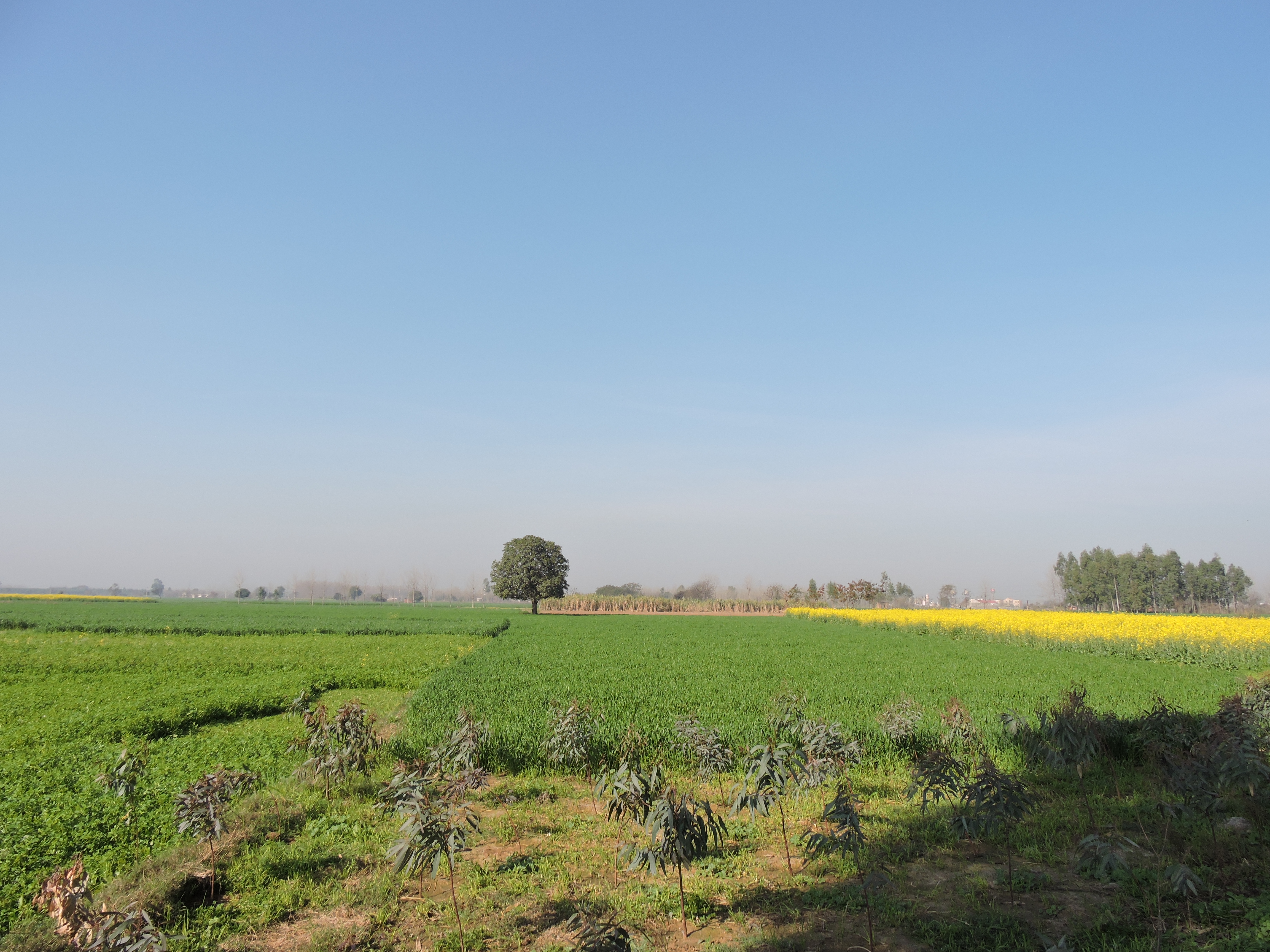 Punjab,India in Spring season,village Jhanjedi, District SAS Nagar(Mohali)